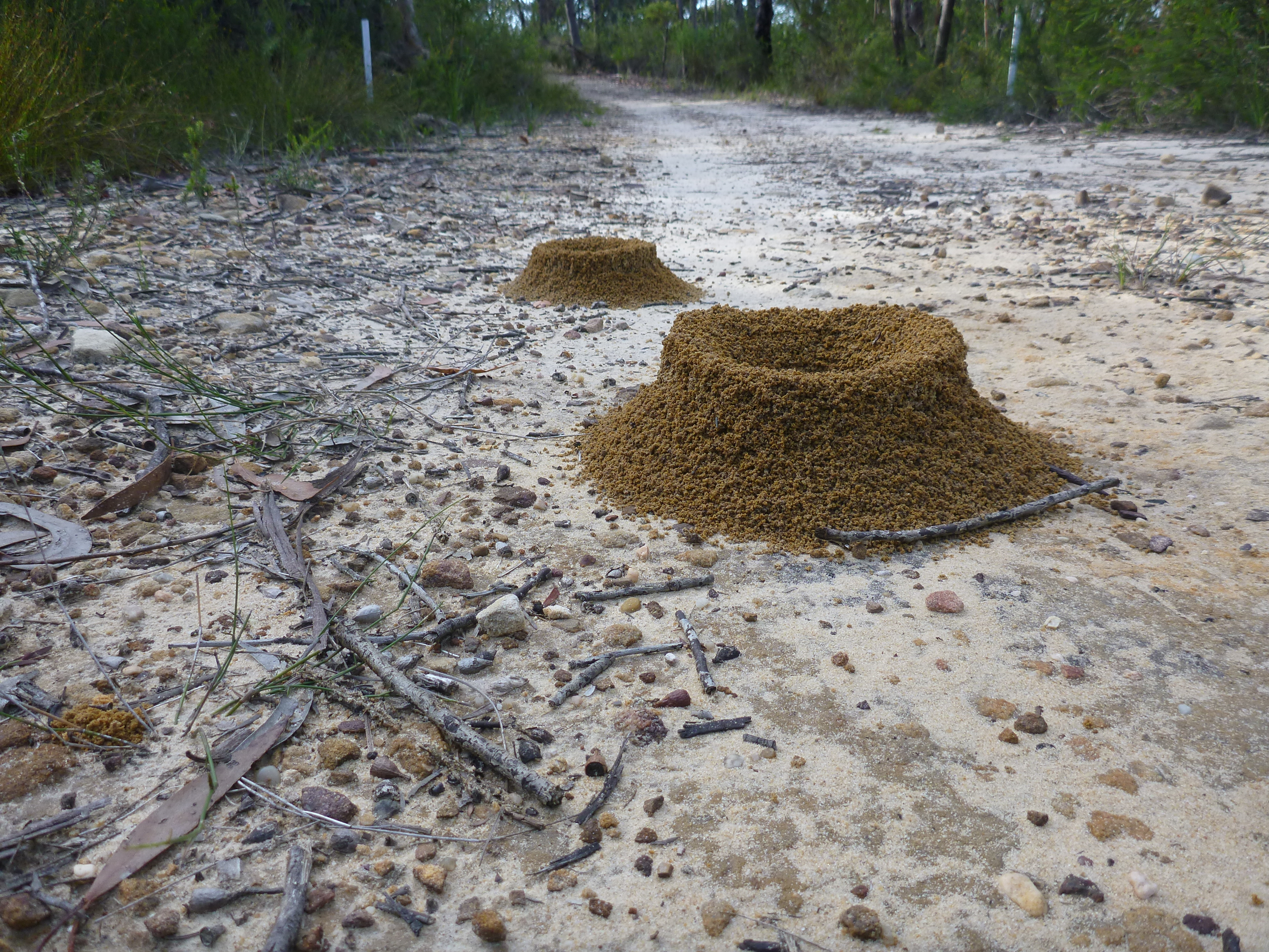 Ant mounds along Pearl Beach Fire Trail, Brisbane Water National Park